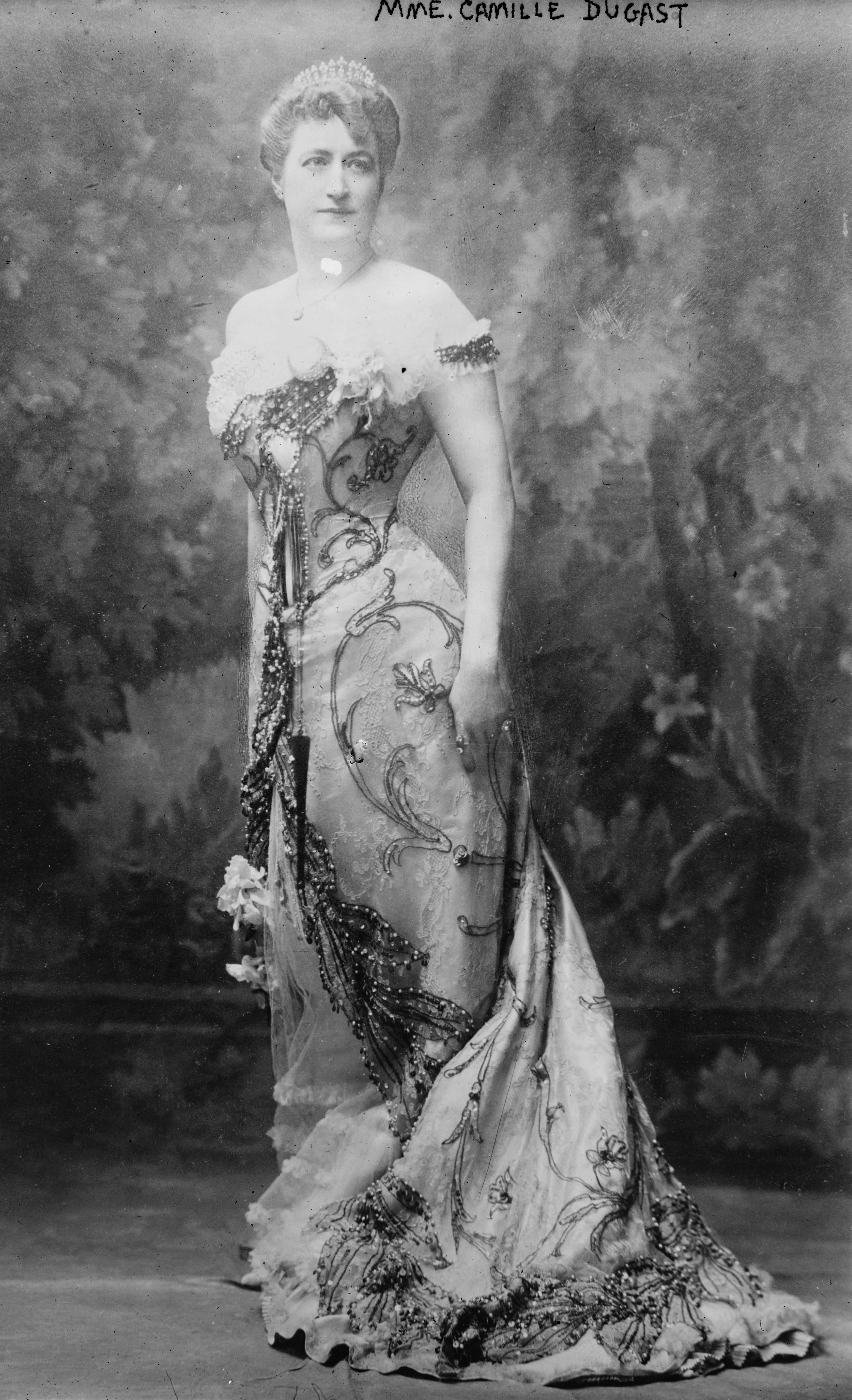 Camille du Gast - Full body publicity picture for a piano recital